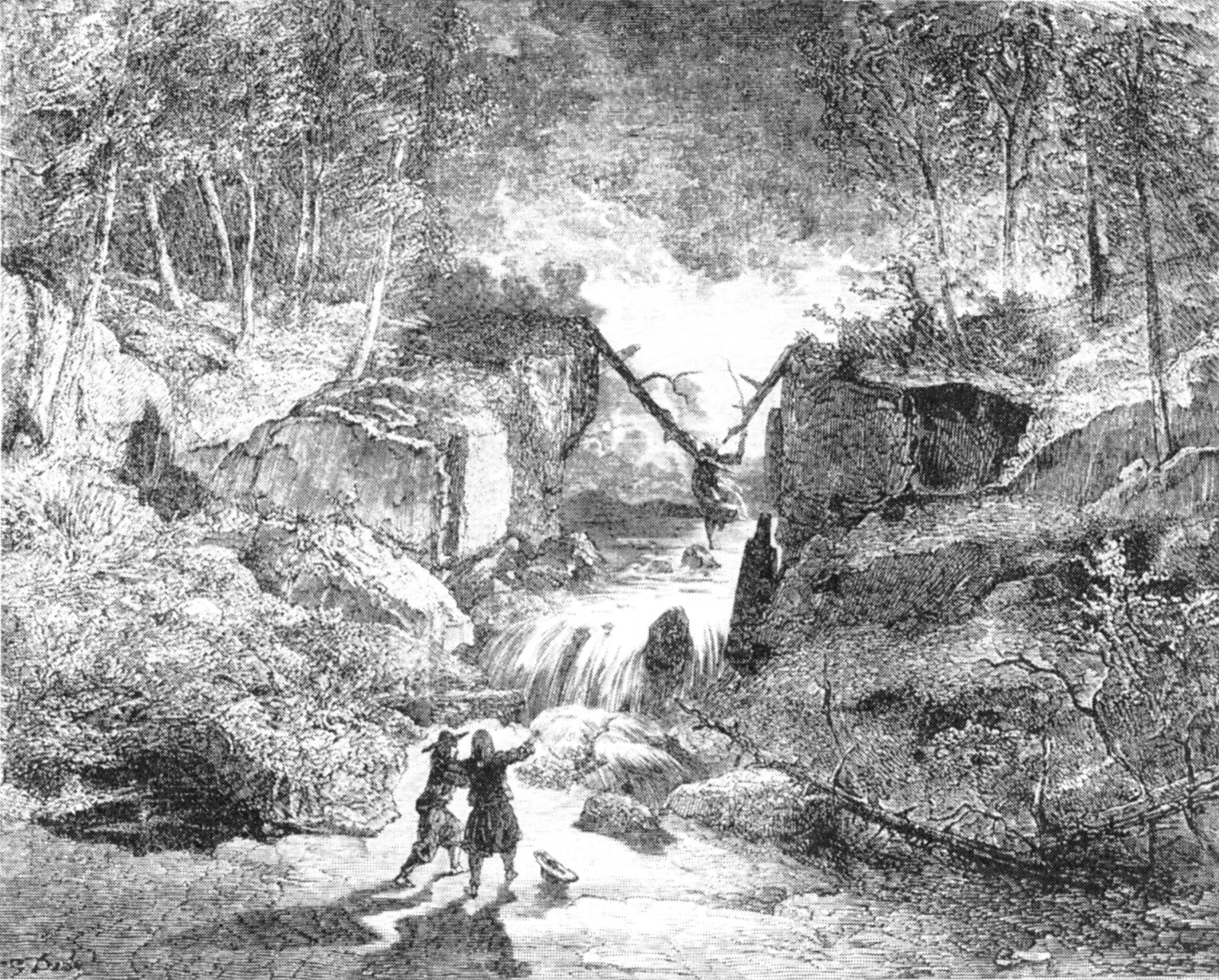 Act II set design for the premiere of Giacomo Meyerbeer's opera Le pardon de Ploërmel (Dinorah), presented by the Opéra-Comique in Paris on 4 April 1859.